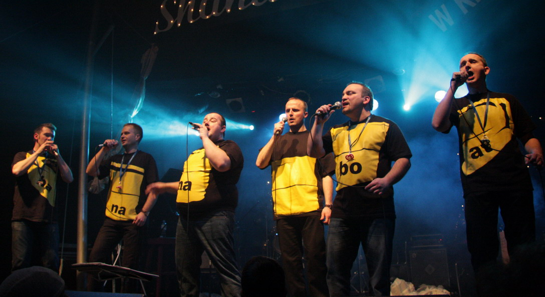 Banana Boat, Polish a capella band